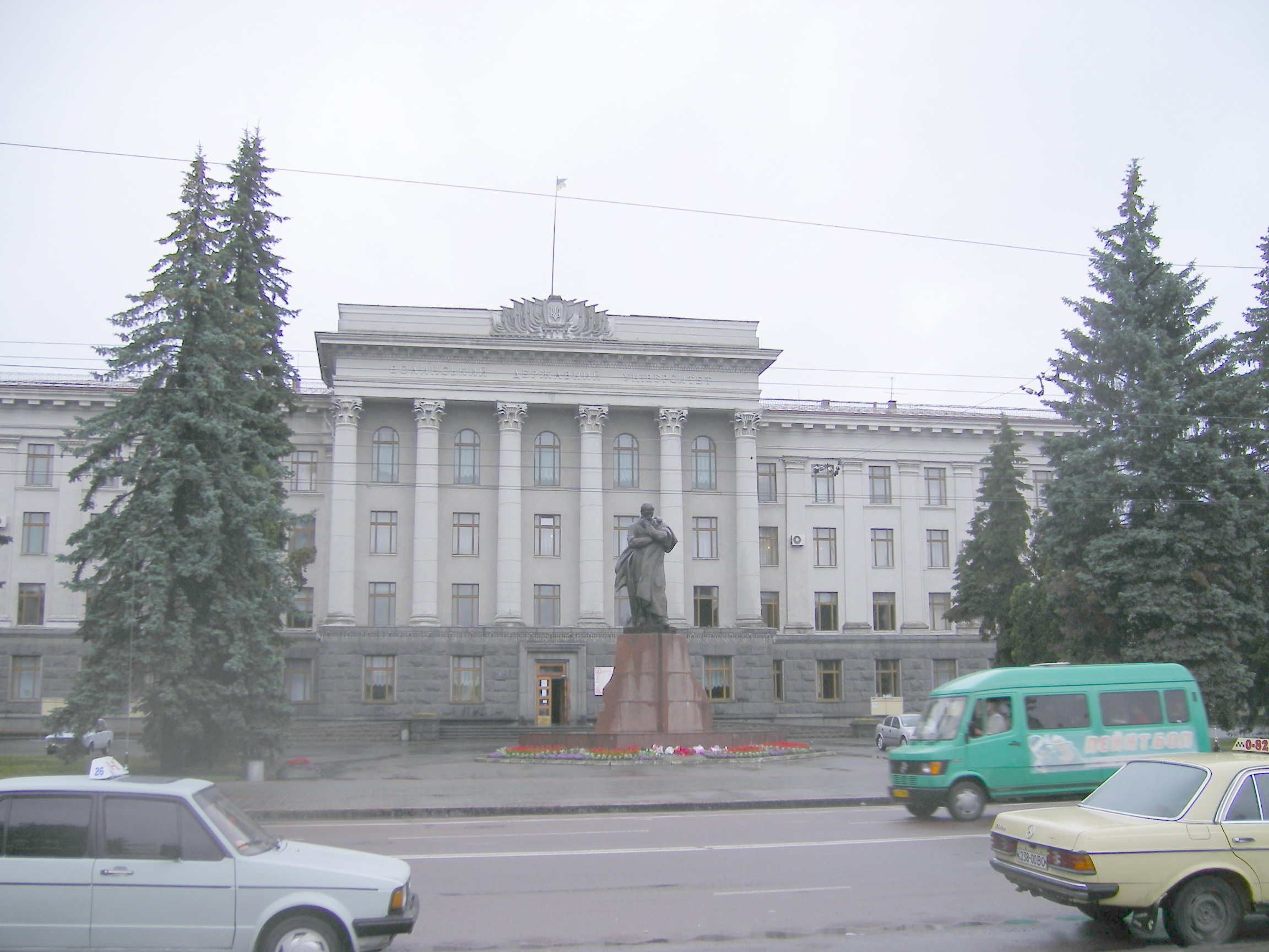 Lutsk, Volhinian University